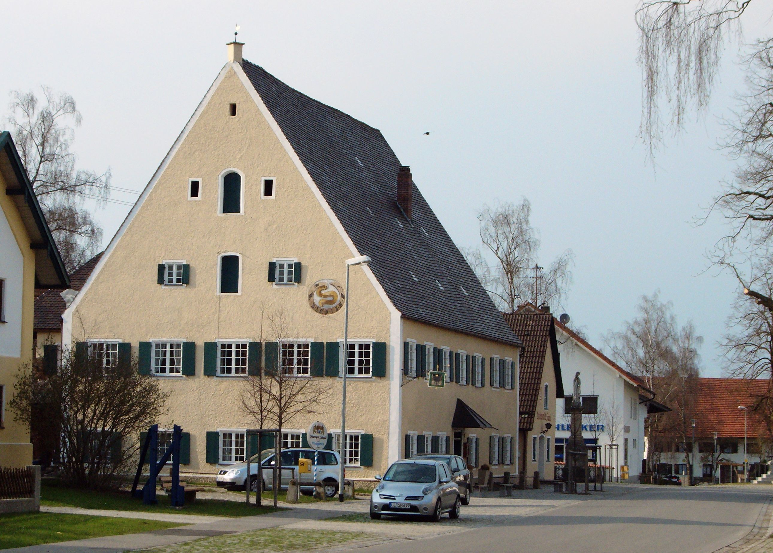 Leeder (Fuchstal), exterior view of Luitpold Inn, a former tavern dating back to the 2nd half of the 16th century.